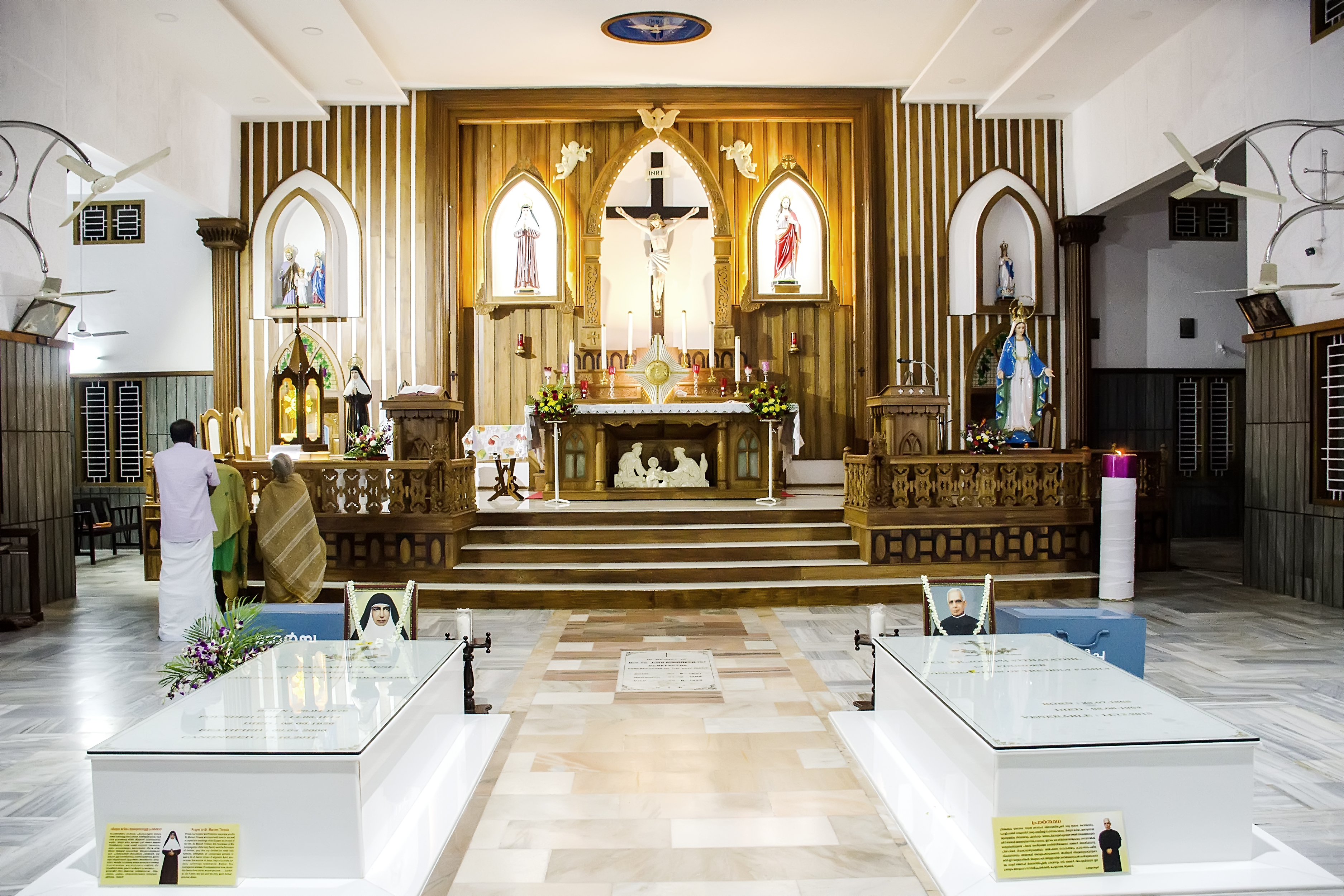 Tomb of St. Mariam Thresia at St.Mariam Thresia Pilgrim Centre, Kuzhikattussery, Kerala